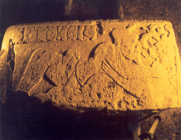 Photo of Step 7 from the site of La Amelia, excavated in 1997 from the southwest corner of the Hieroglyphic Stairway